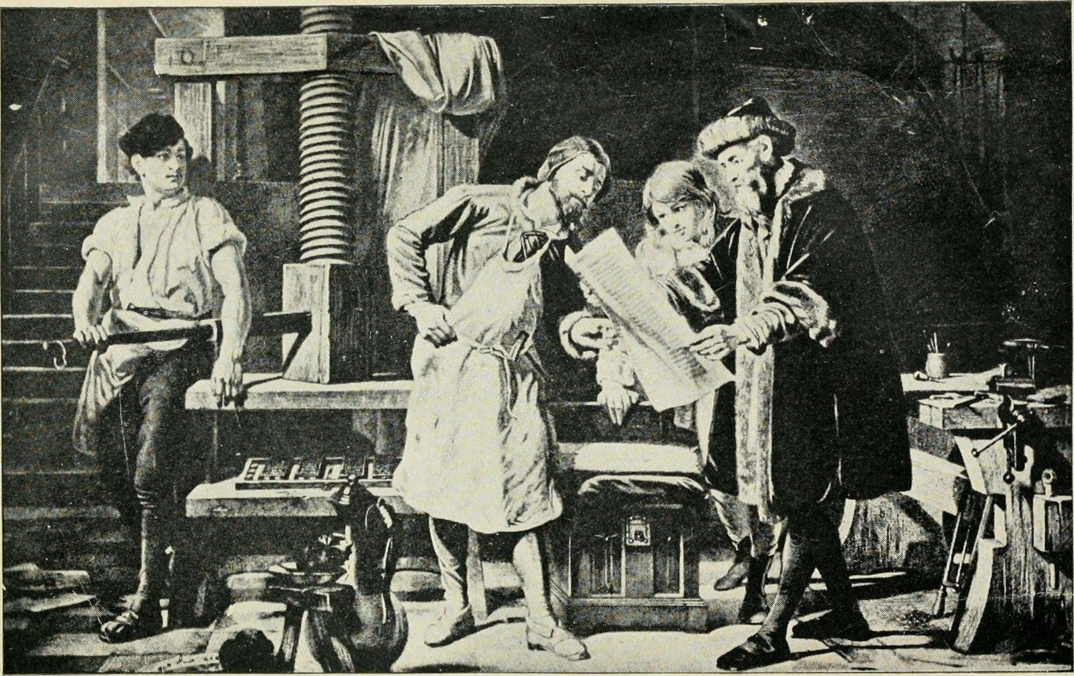 Gutenberg taking an impression Title: Printing and writing materials : their evolution Year: 1904 (1900s) Authors: Smith, Adele Millicent Subjects: Writing -- Materials and instruments Printing -- History Papermaking Bookbinding Publisher: Philadelphia : Smith Text Appearing Before Image: ^ derived its knowledge ofthis art from the East. In Japan the earliest example of block-printingdates from the middle of the eighth century.The Jesuits were the first to print from metaltypes in that country, in the seventeenth century.Because of the avidity with which the Japanesehave taken hold of Western learning, printing isextensively carried on in Japan, both blocks andtypes of metal being employed. Text Appearing After Image: CHAPTER II PRINTING IN EUROPE TN Europe until the second half of the four--■- teenth century, books of every kind, letters,and all private and public documents were writtenby hand. Figures and pictures were producedwith either the pen or the brush. Before the invention of typography in themiddle of the fifteenth century, playing-cards,pictures of saints, and block-books were printedfrom engraved wooden blocks.^ , When this method of printing began to bedeveloped in Europe, it was in connection withplaying-cards. The work was extended in the ^production of image prints (sometimes accom- image prints . . and block- panied with a text), texts of scripture without books,pictures, and whole books,—each picture, text, orleaf being printed from one engraved block. Thelatter, called block-books, sometimes consisted only 1 Block-printing on cloth and vellum seems to have been practisedas early as the twelfth century, and on paper as early as the secondhalf of the fourteenth century. 2 (17)